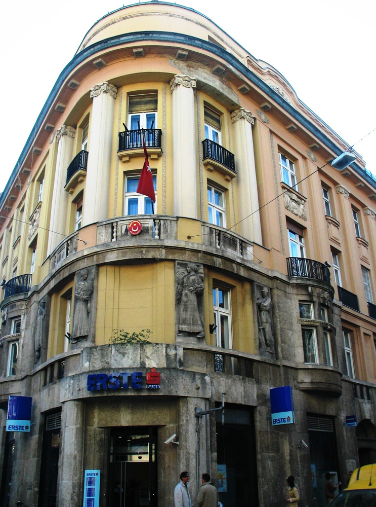 Edo Šen- Palace Croatia, corner of Preradovićeva - Masarykova street, Zagreb (1909.- 1910.)